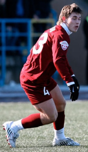 Aleksei Kotliarov as a player of FC Rubin Youth